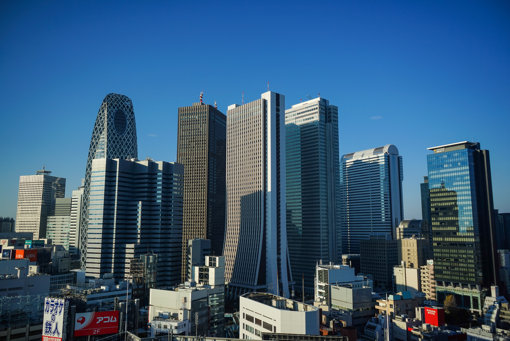 新宿 東京 日本 by Sony A7R & FE 28-70mm F3.5-5.6 OSS